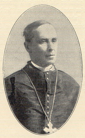 Bishop Martin Marty O.S.B. of Saint Cloud, Minnesota